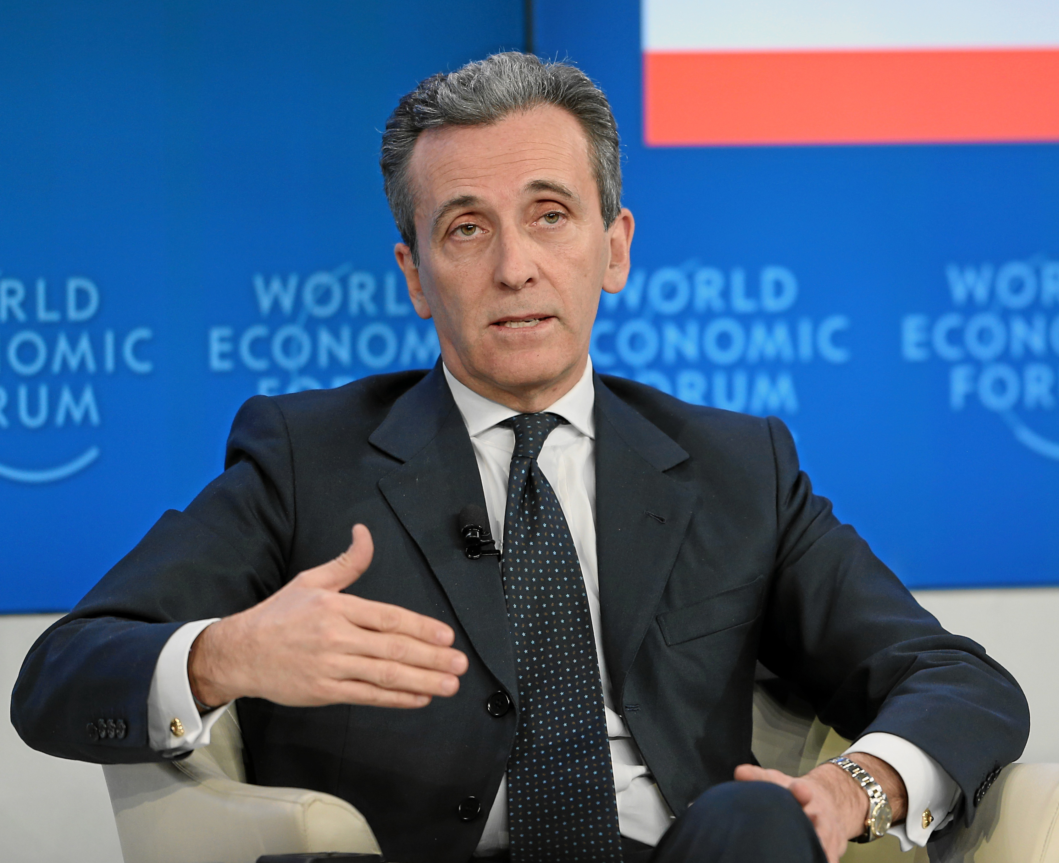 DAVOS/SWITZERLAND, 25JAN13 - Vittorio Grilli, Minister of Economy and Finance of Italy addresses the audience during the session 'Creating Economic Dynamism' at the Annual Meeting 2013 of the World Economic Forum in Davos, Switzerland, January 25, 2013. . . Copyright by World Economic Forum. . Moritz Hager